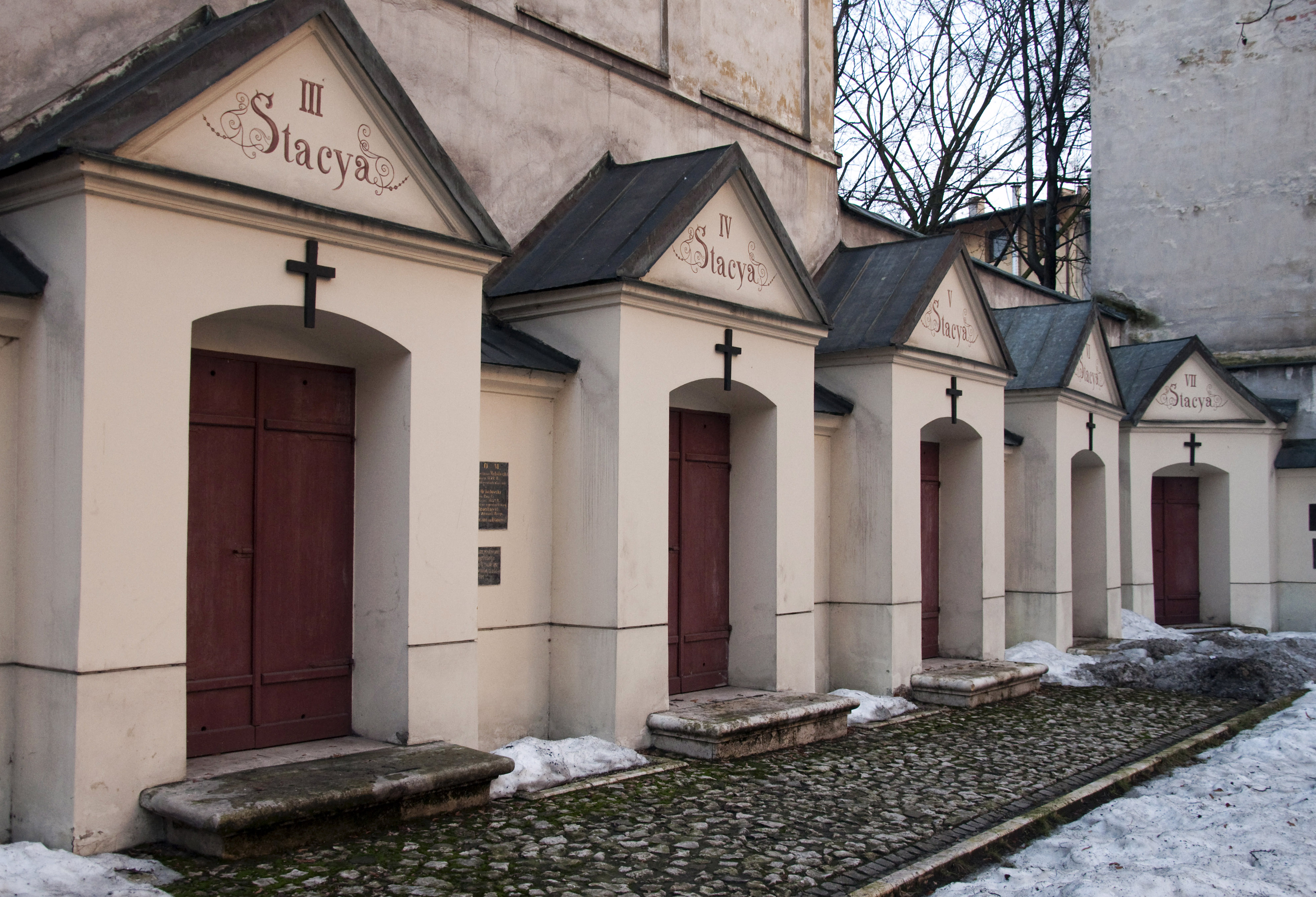 Stations of the Cross of The Church of St. Casimir the Prince in Kraków